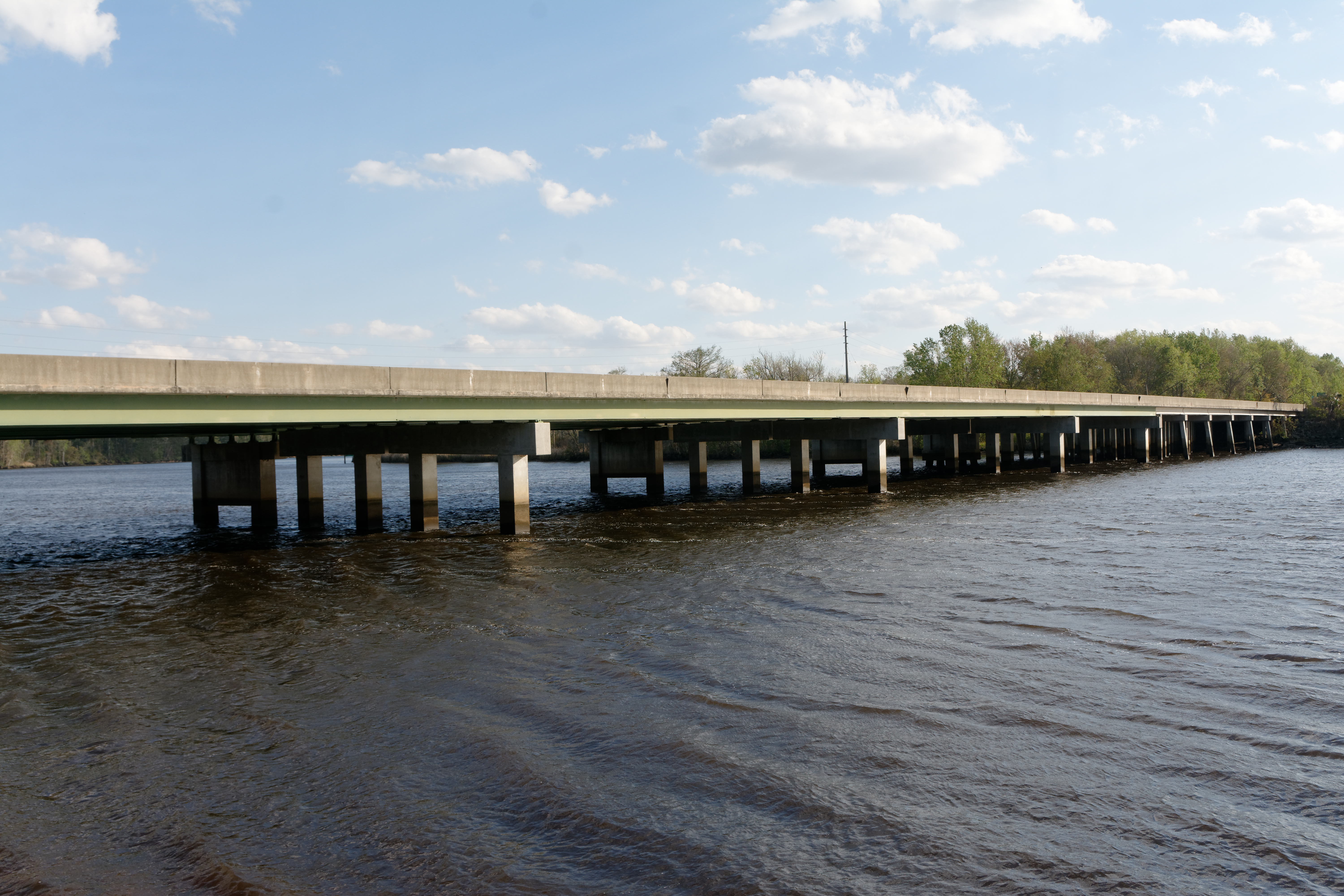 Bridge of US 17 crossing the Ogeechee River in Chatham County, Georgia, U.S.